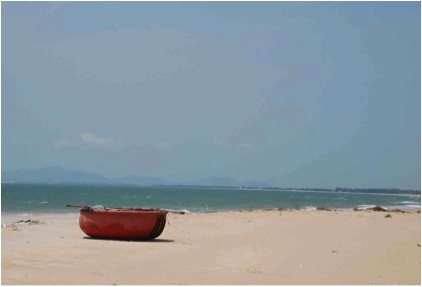 This is a photograph of a traditional Vietnamese on Ho Tram Beach on the Southern coast of Vietnam